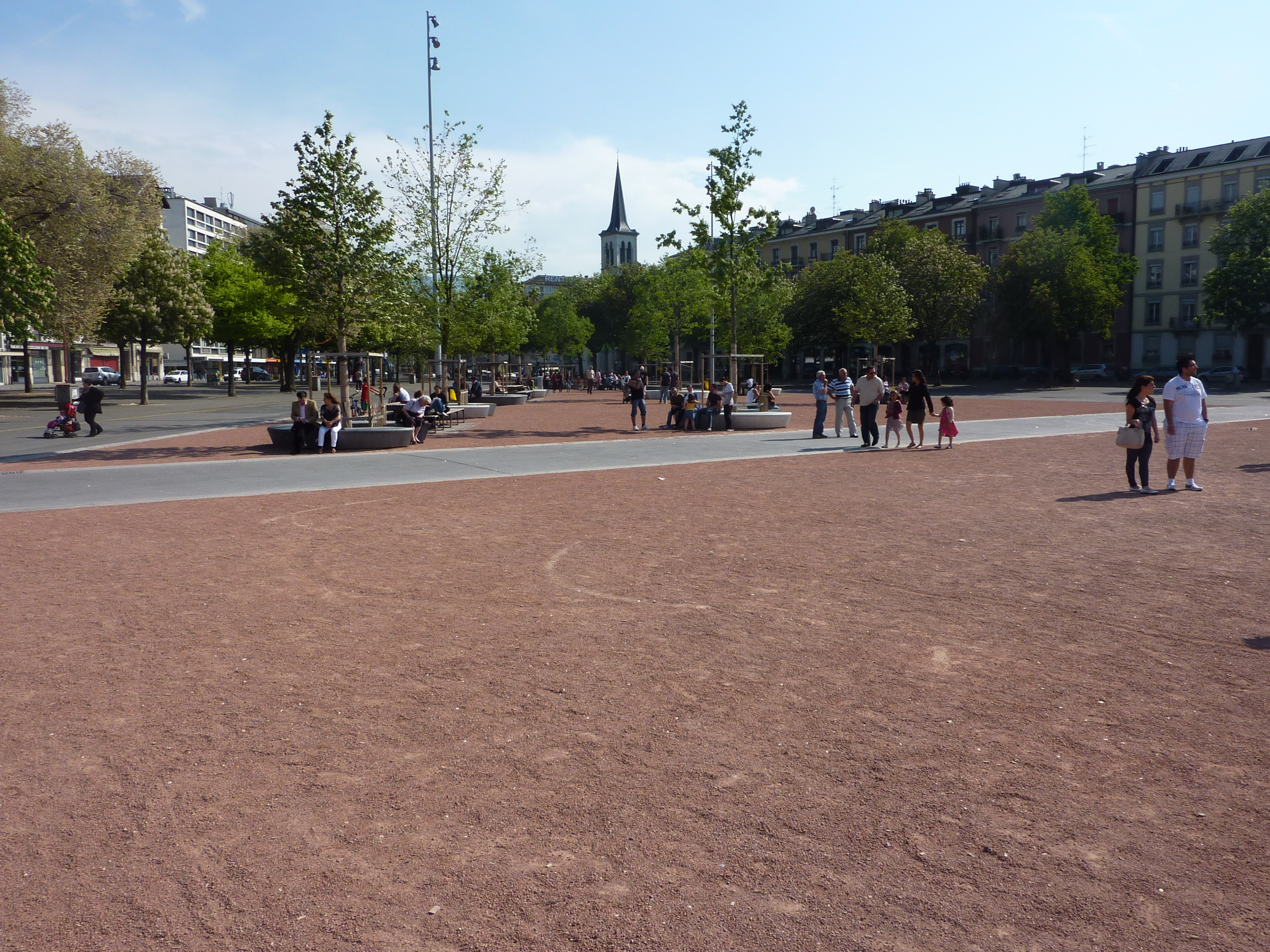 Plaine de Plainpalais in Geneva, Switzerland